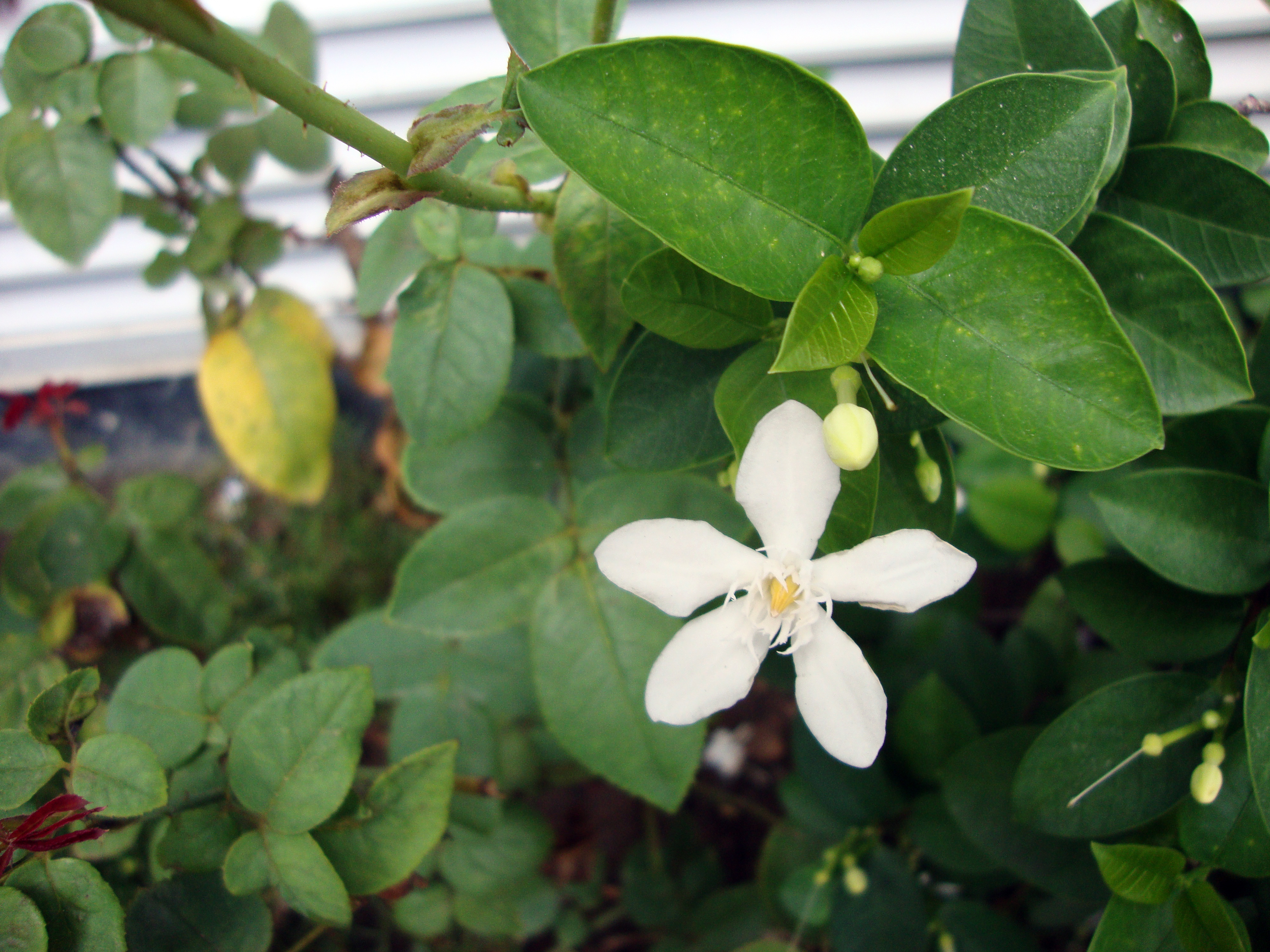 Wrightia antidysenterica (L.) R.Br., 1811